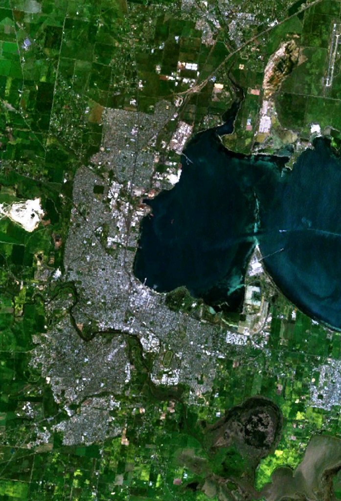 Geelong, Victoria and suburbs, including Lara in the north, Grovedale in the south-west and Moolap in the south-east. The western end of Corio Bay, including Point Henry, is visible.